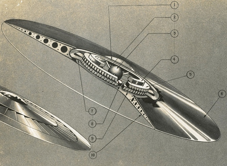 An illustration of a flying saucer designed by Jacque Fresco.